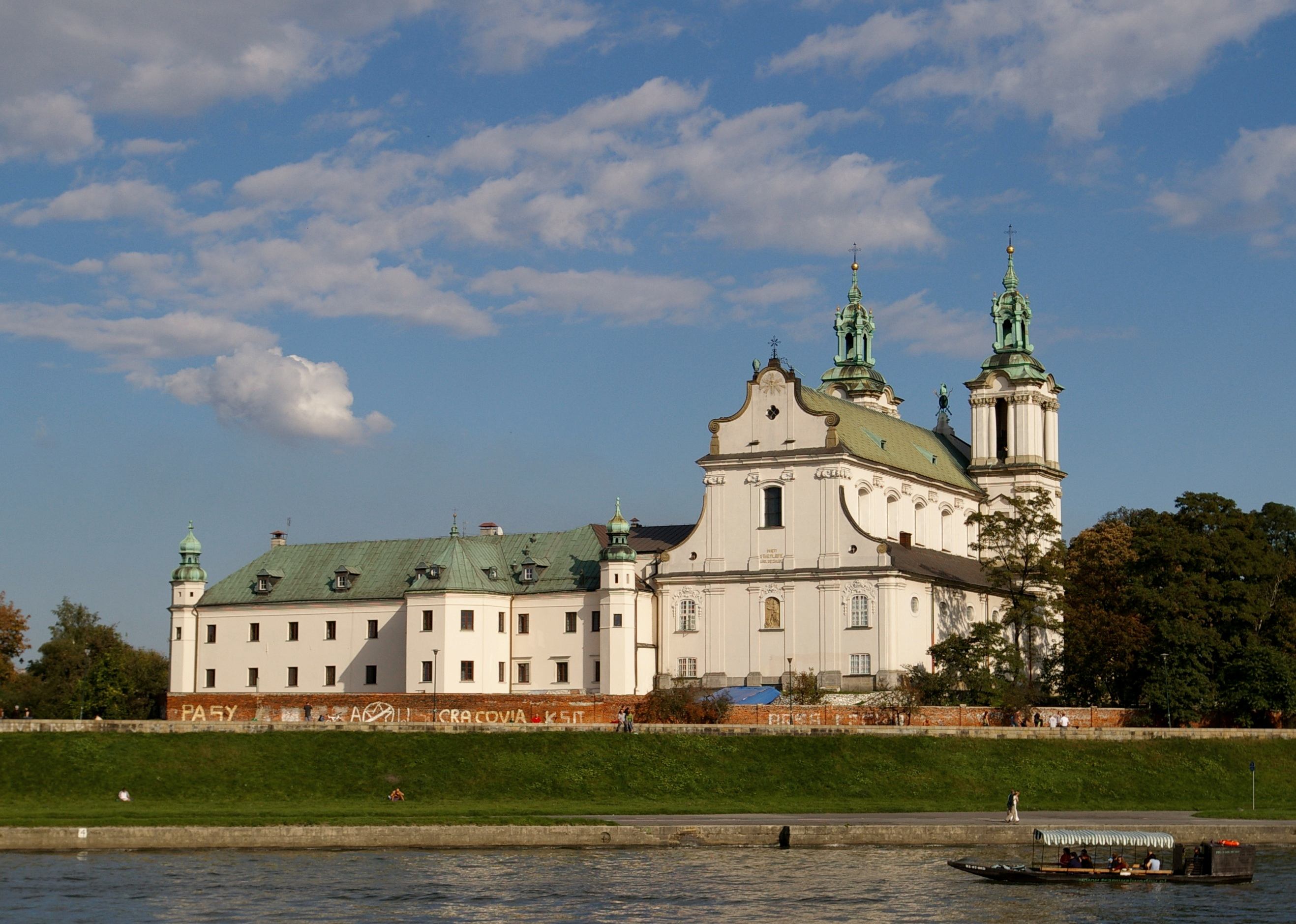 St. Stanislaus church in Kraków